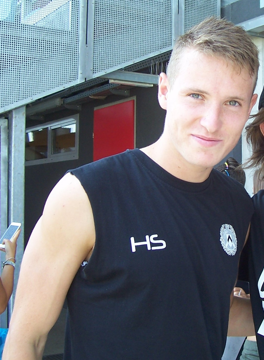 Jankto during 2017 preseason by Udinese in Sankt Veit an der Glan